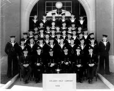 The Calgary half company of the Royal Canadian Naval Volunteer Reserve (RCNVR) poses for a formal portrait in 1938. Starting in 1923, the RCNVR established units called "companies" or "divisions" across the country, with some communities like Calgary having smaller units called "half companies" or "half divisions". This practice helped give the Royal Canadian Navy a national presence even when its fleet had been reduced to a bare minimum. Even in provinces like Alberta without an ocean coastline, interest in the RCNVR was usually strong. VR2002.1.242 CFB Esquimalt Naval and Military Museum